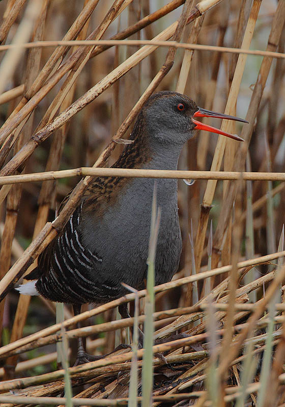 A rather secretive bird of extensive reed-beds. Image taken at Loch of Kinnordy, Angus, Scotland.